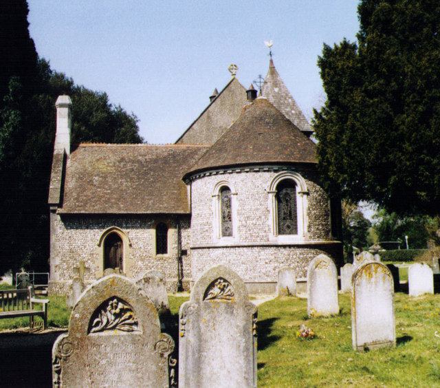 St Barnabas, Swanmore Grade 2 listed building erected in 1844.